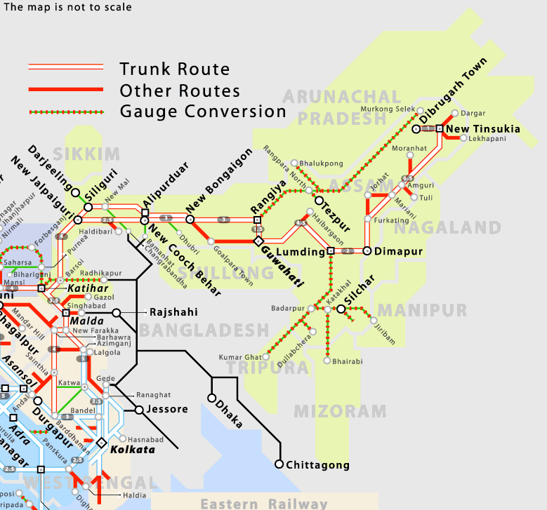 Northeast india railway, cropped and legend